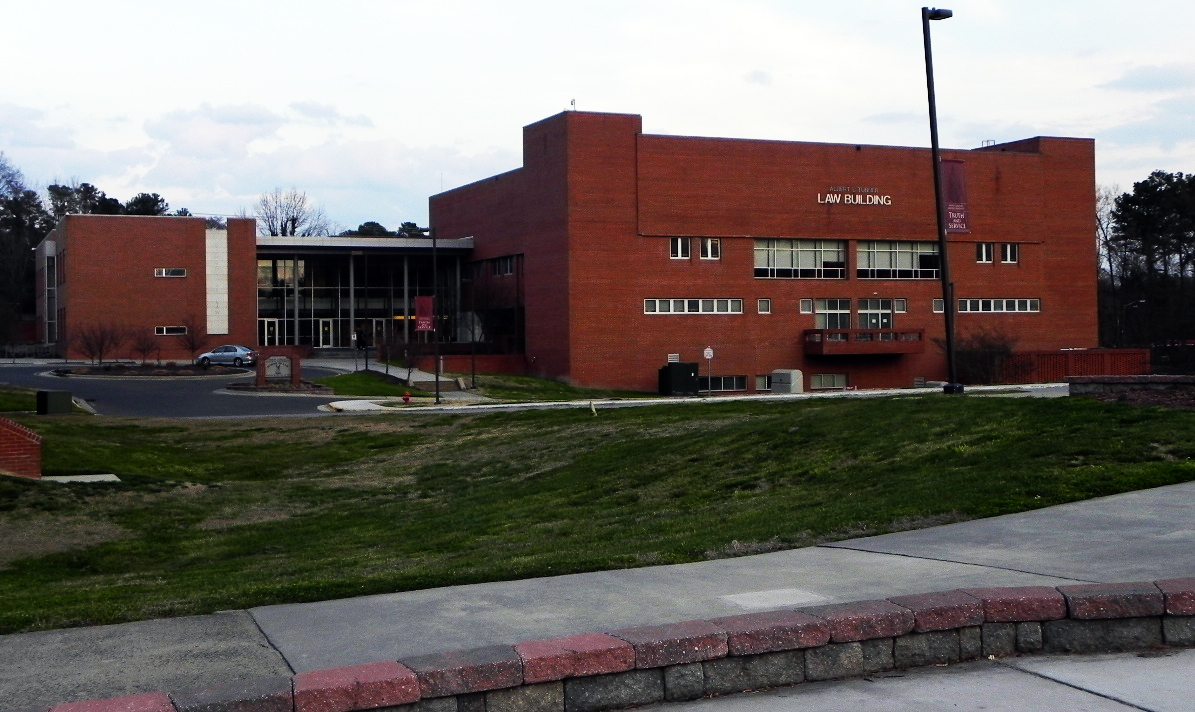 NCCU's School of Law is one of only 2 schools of law with in the University of North Carolina system, the other being UNC Chapel Hill. The school's alumni include: Maynard Holbrook Jackson, Jr., the first African American mayor of Atlanta, Georgia, serving 3 terms (1974–82, 1990–94), the Mike Easley, the 72nd governor of North Carolina, serving 2 terms (2001-2009), George Kenneth "G. K." Butterfield, Jr., U.S. House Representative for North Carolina's 1st congressional district (2004-current) to name a few.